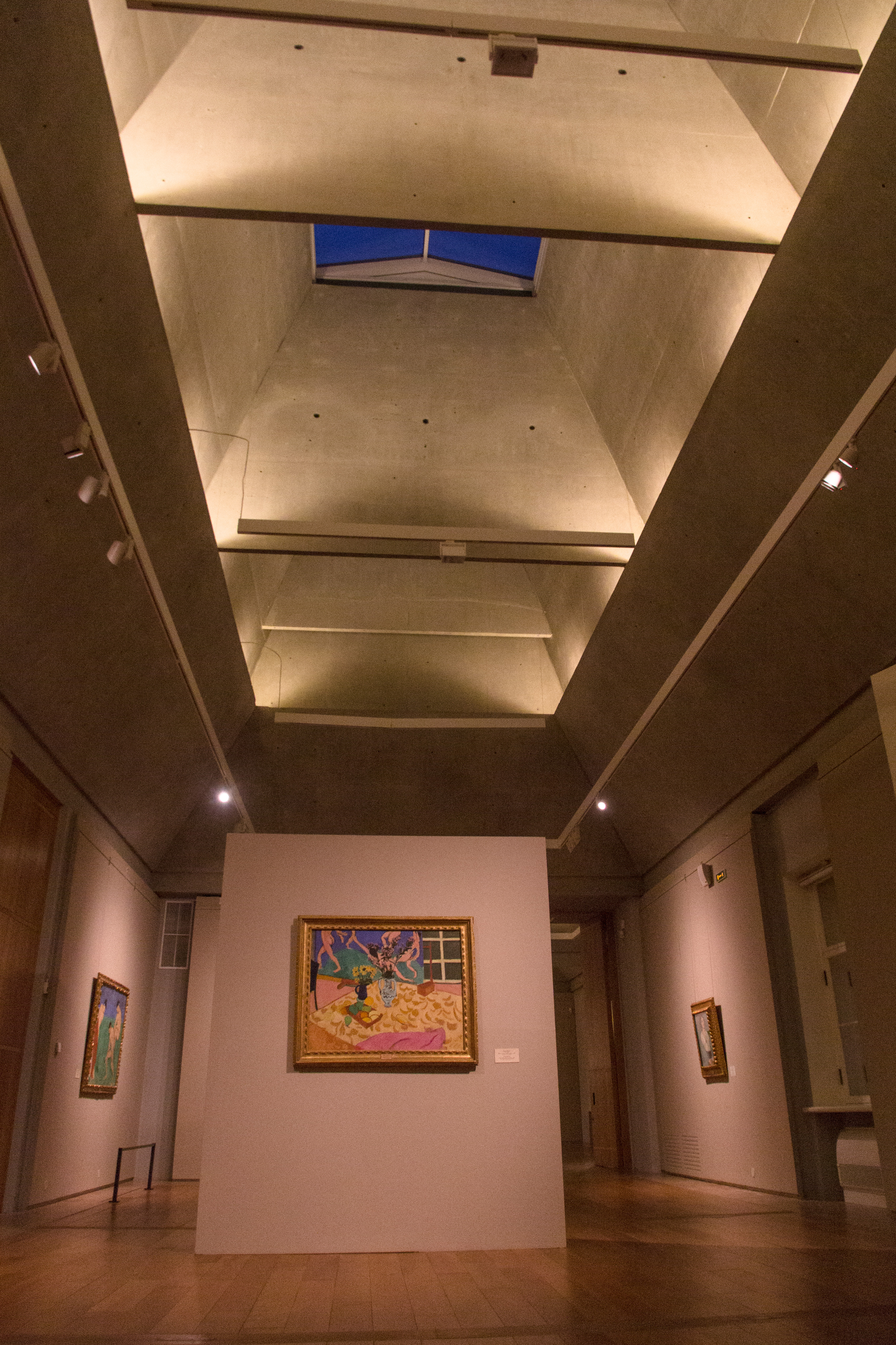 Henri Matisse at the Hermitage Museum